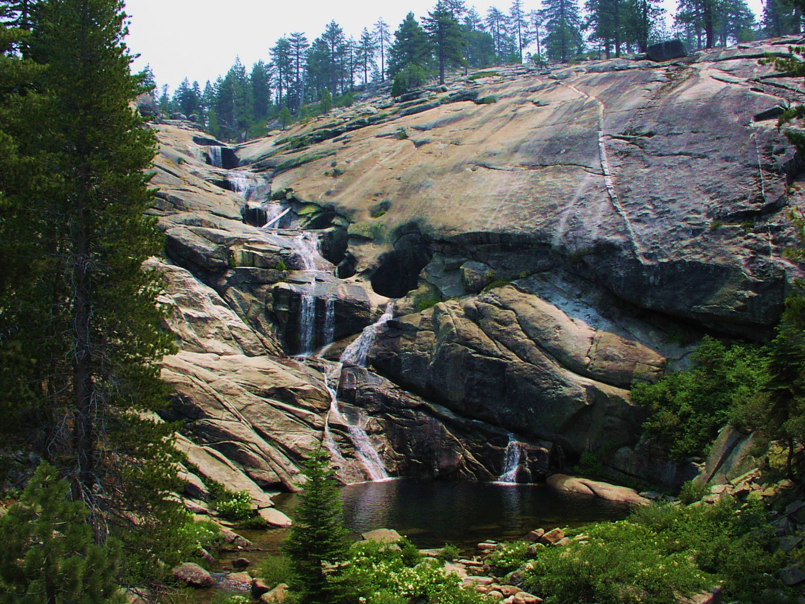 Swimming hole at upper Chilnuala Falls, Yosemite National Park, California.